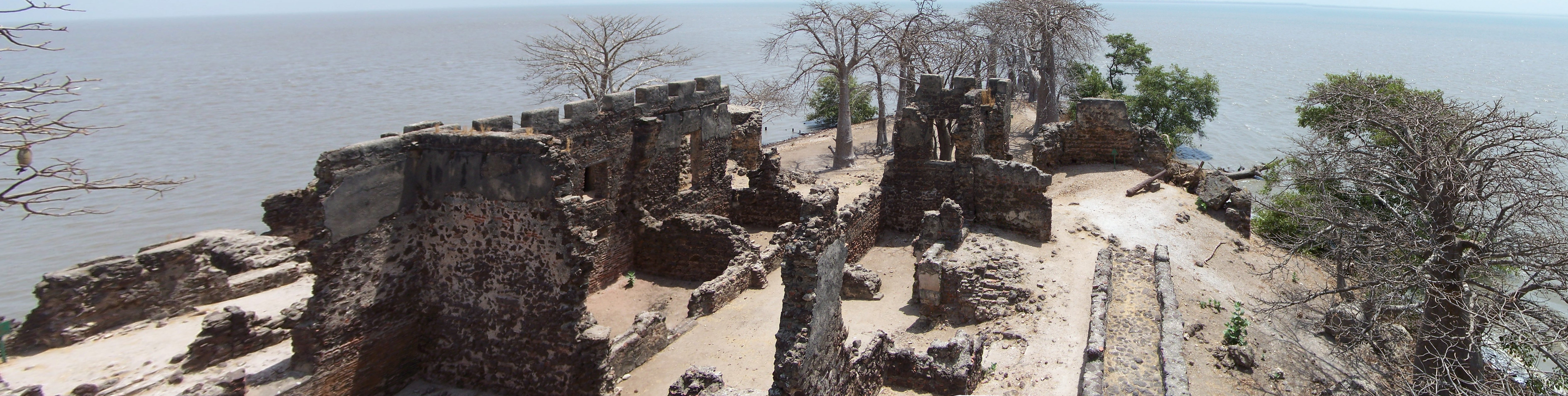 James Island, Gambia, Panorama made with Hugin